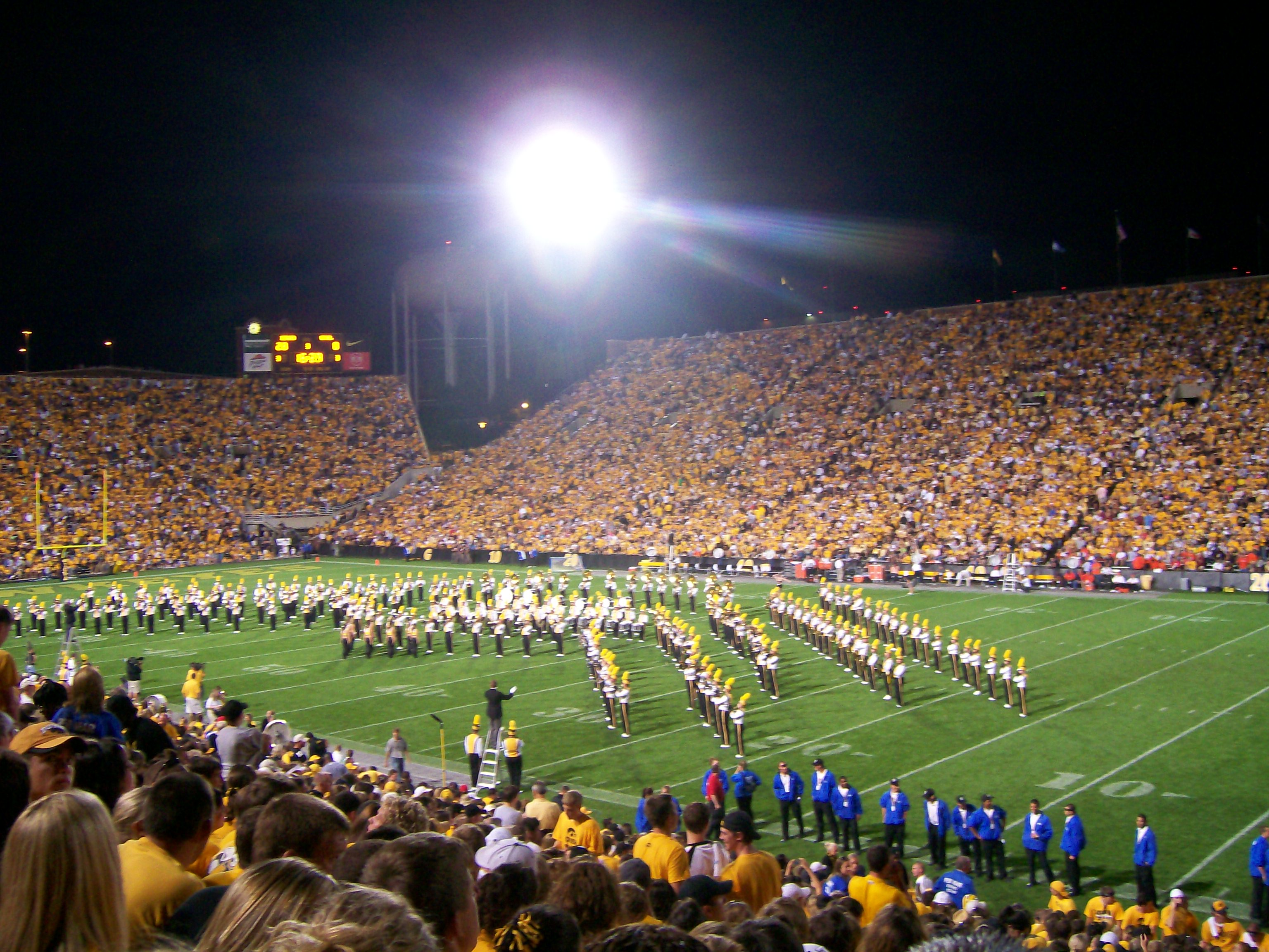 Kinnick Stadium during a September 7, 2007, game against Syracuse University